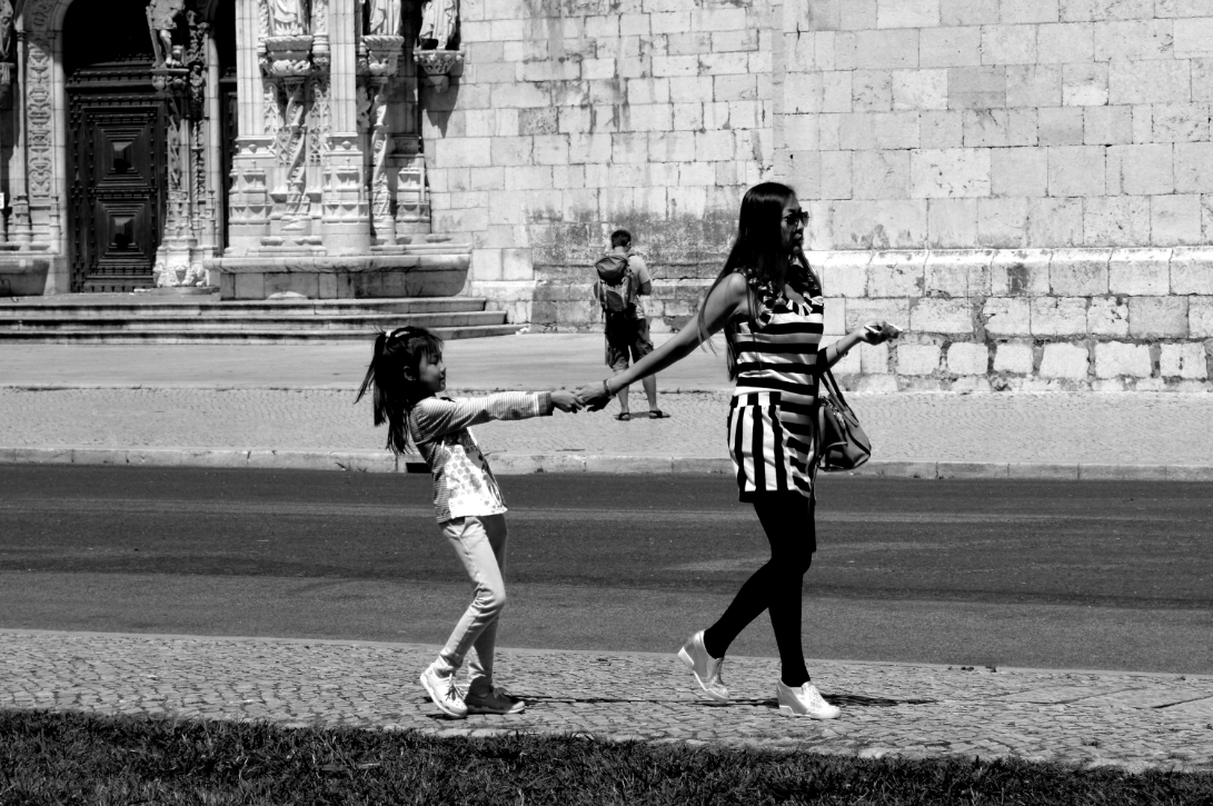 A child tugs at the hand of an adult in a striped dress as they walk down a street in Portugal.